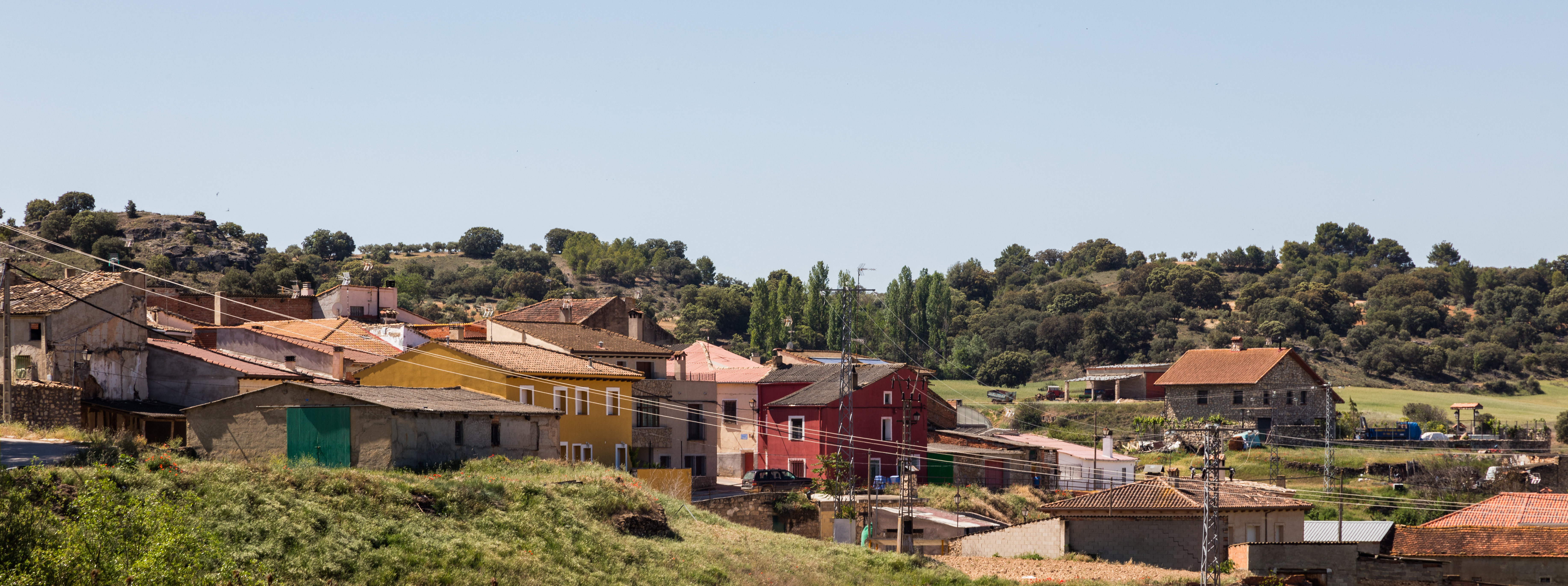 Salmeroncillos de Abajo, Cuenca, Spain